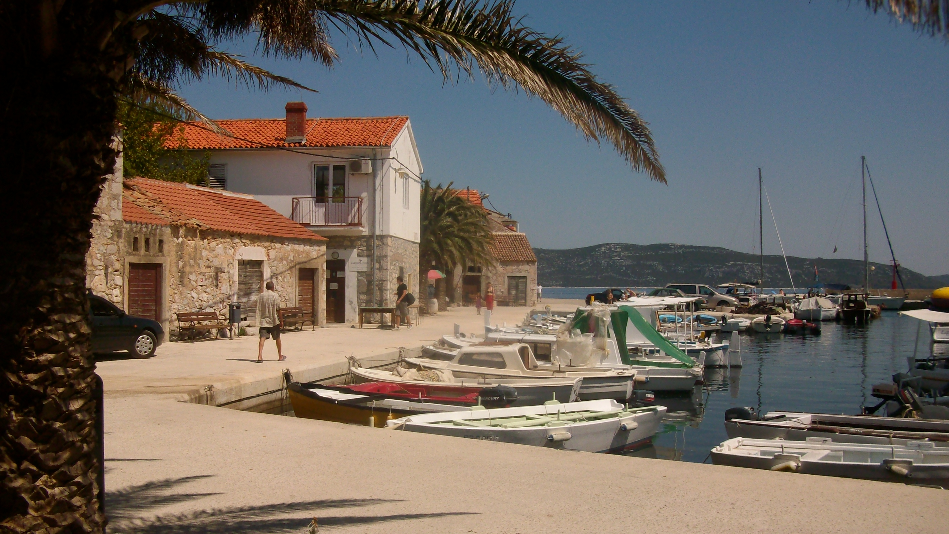 Mali Iž, Croatia